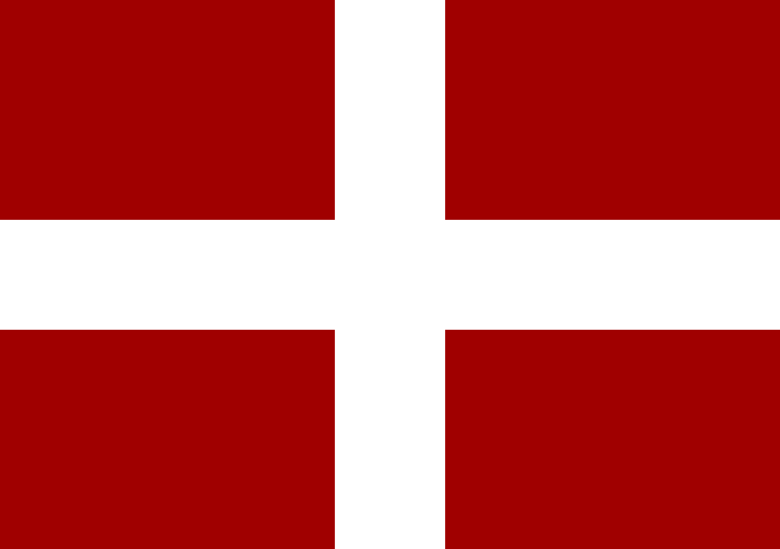 Flag of asti